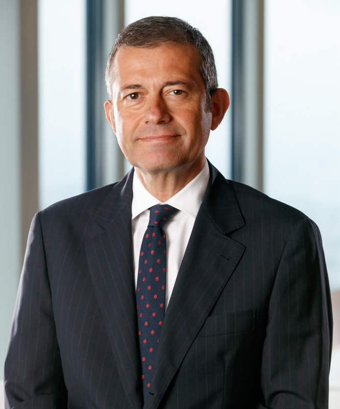 Hakan Binbasgil of Akbank